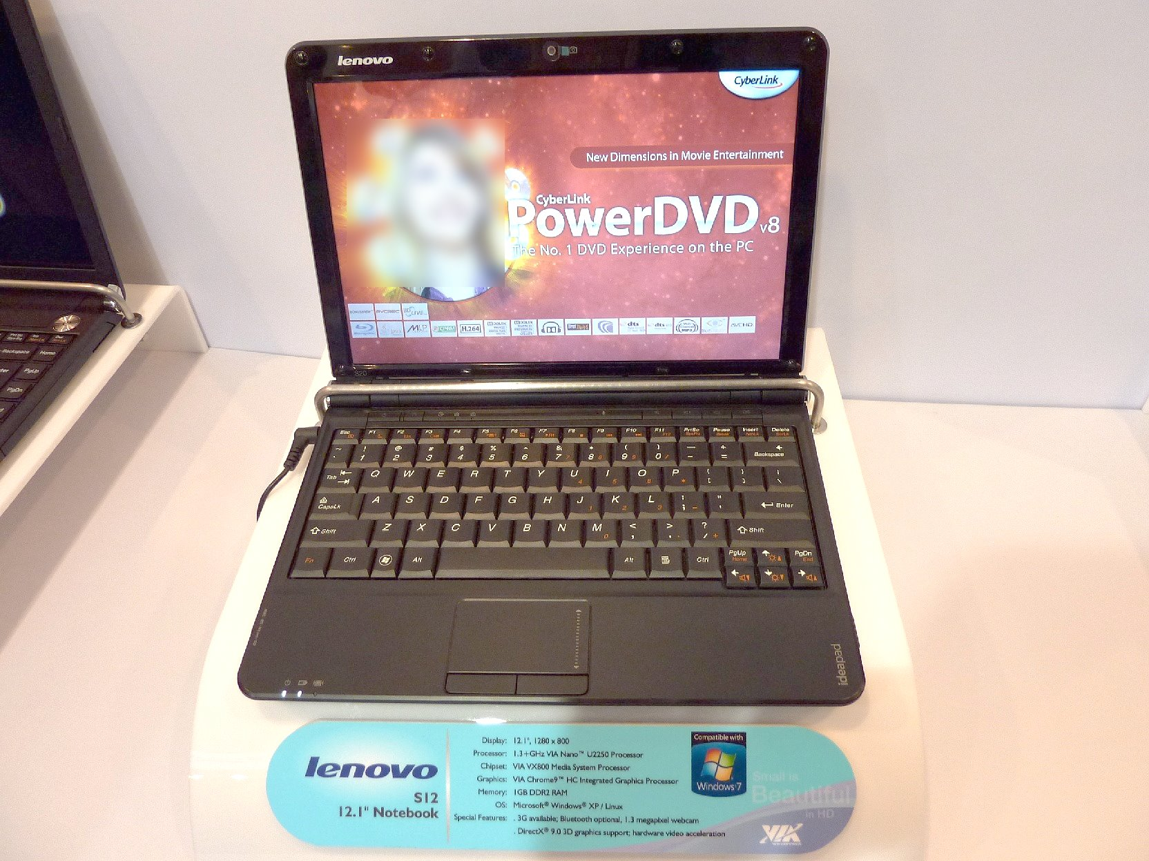 Lenovo Ideapad S12 at Computex 2009 12.1" screen (1280x800) 1.3GHz Via Nano U2250 CPU VIA VX800 Chipset Via Chrome 9 GPU 1GB DDR2 Ram